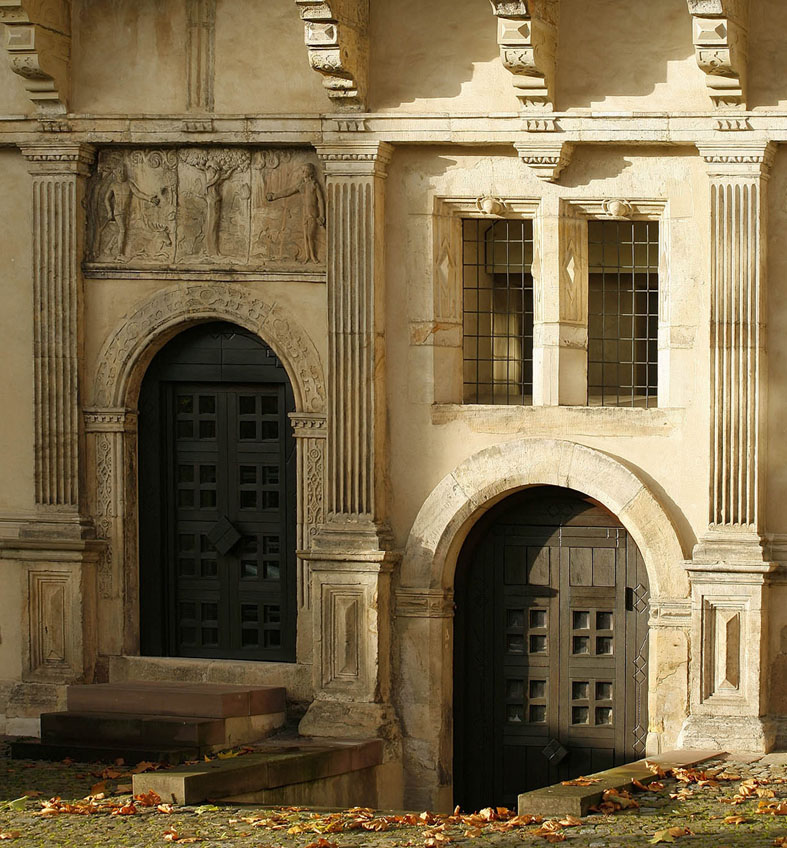 "Adam and Eve Portal" of Brake Castle in Lemgo-Brake, Lippe District, North Rhine-Westphalia, Germany.